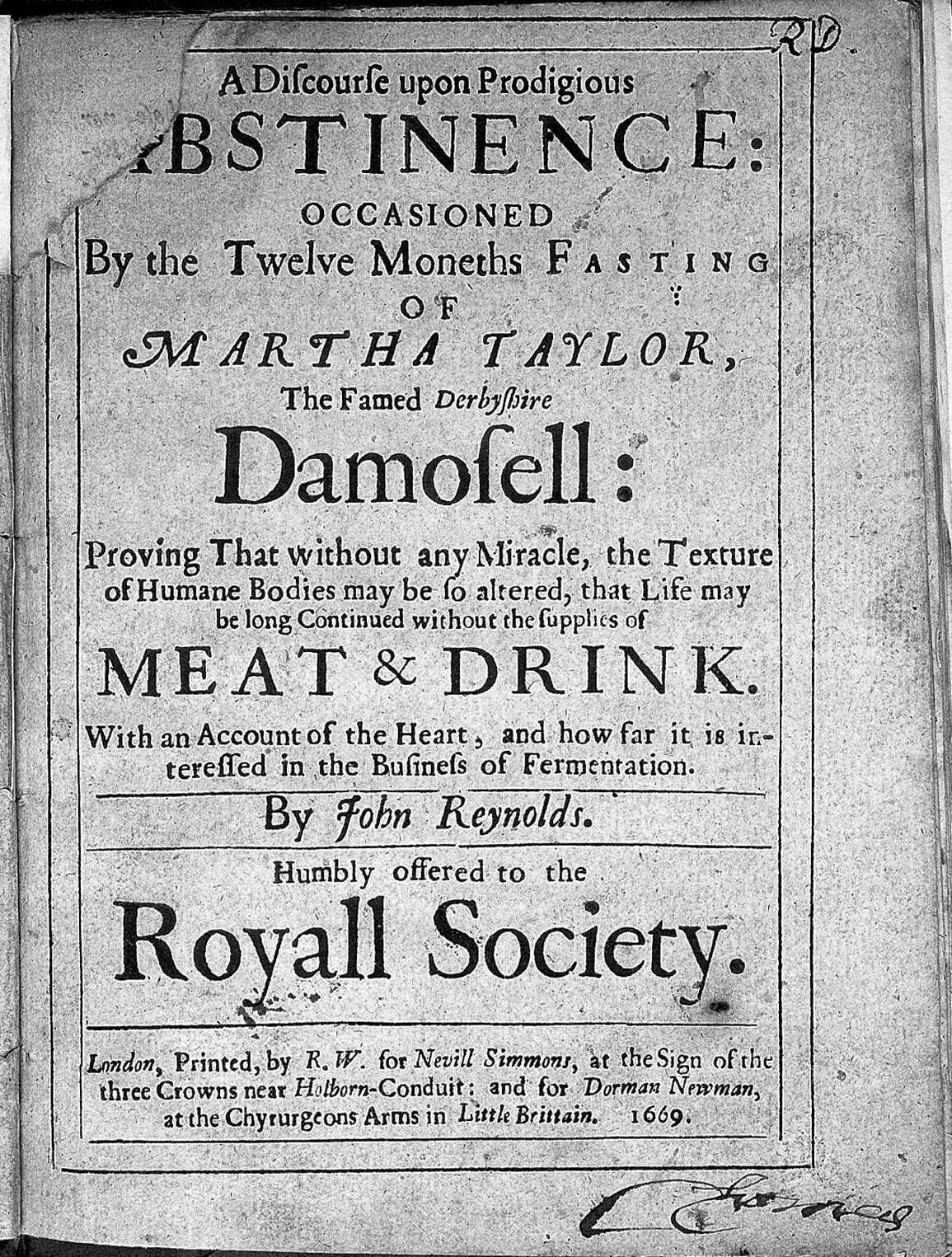 Title page Rare Books Keywords: disease: eating disorders; John Reynolds